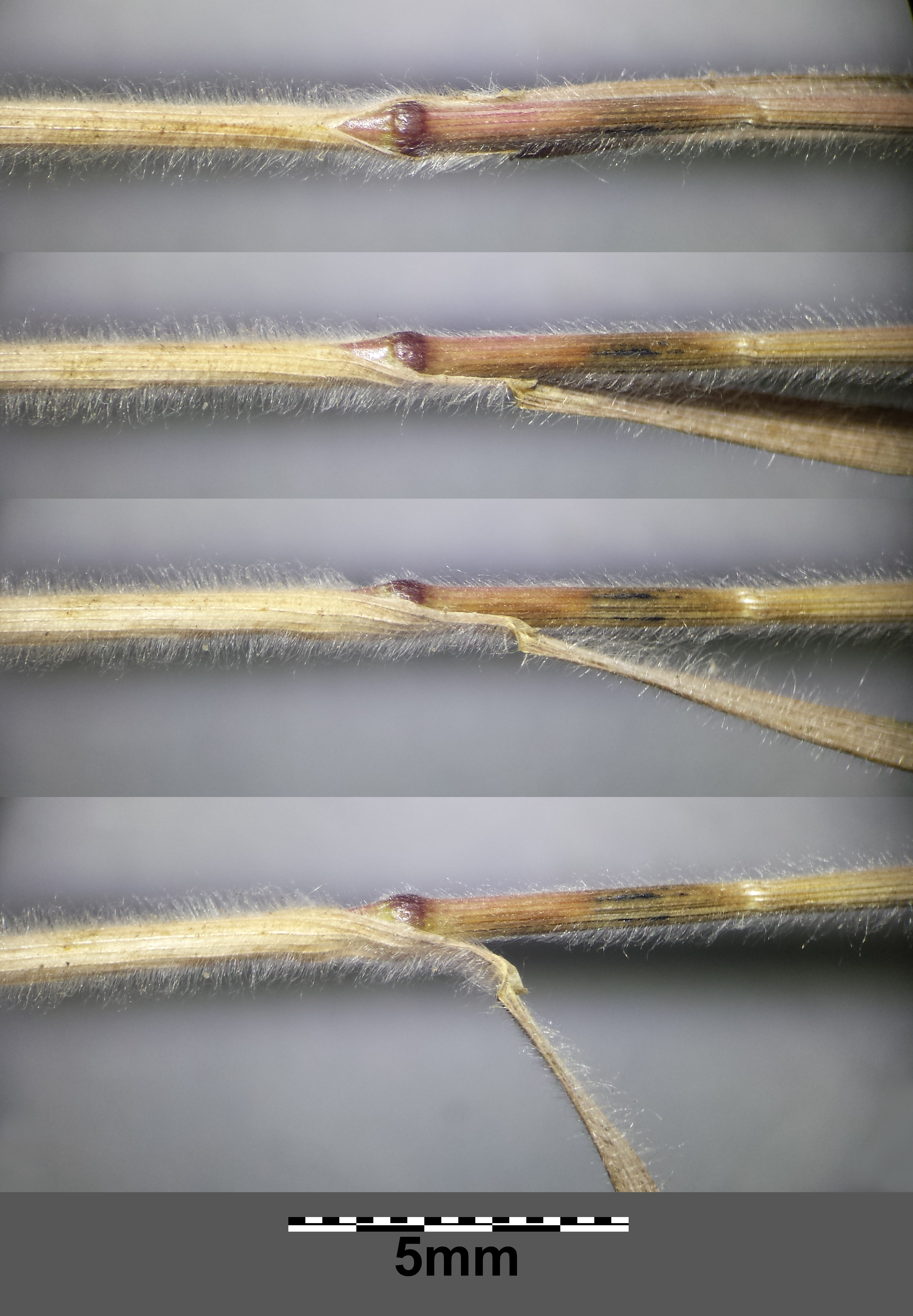 Stem with hirsute leaf sheath Taxonym: Bromus japonicus ss Fischer et al. EfÖLS 2008 ISBN 978-3-85474-187-9 Location: Rosenberg north of Grafensulz, district Mistelbach, Lower Austria - ca. 310 m a.s.l. Habitat: wayside